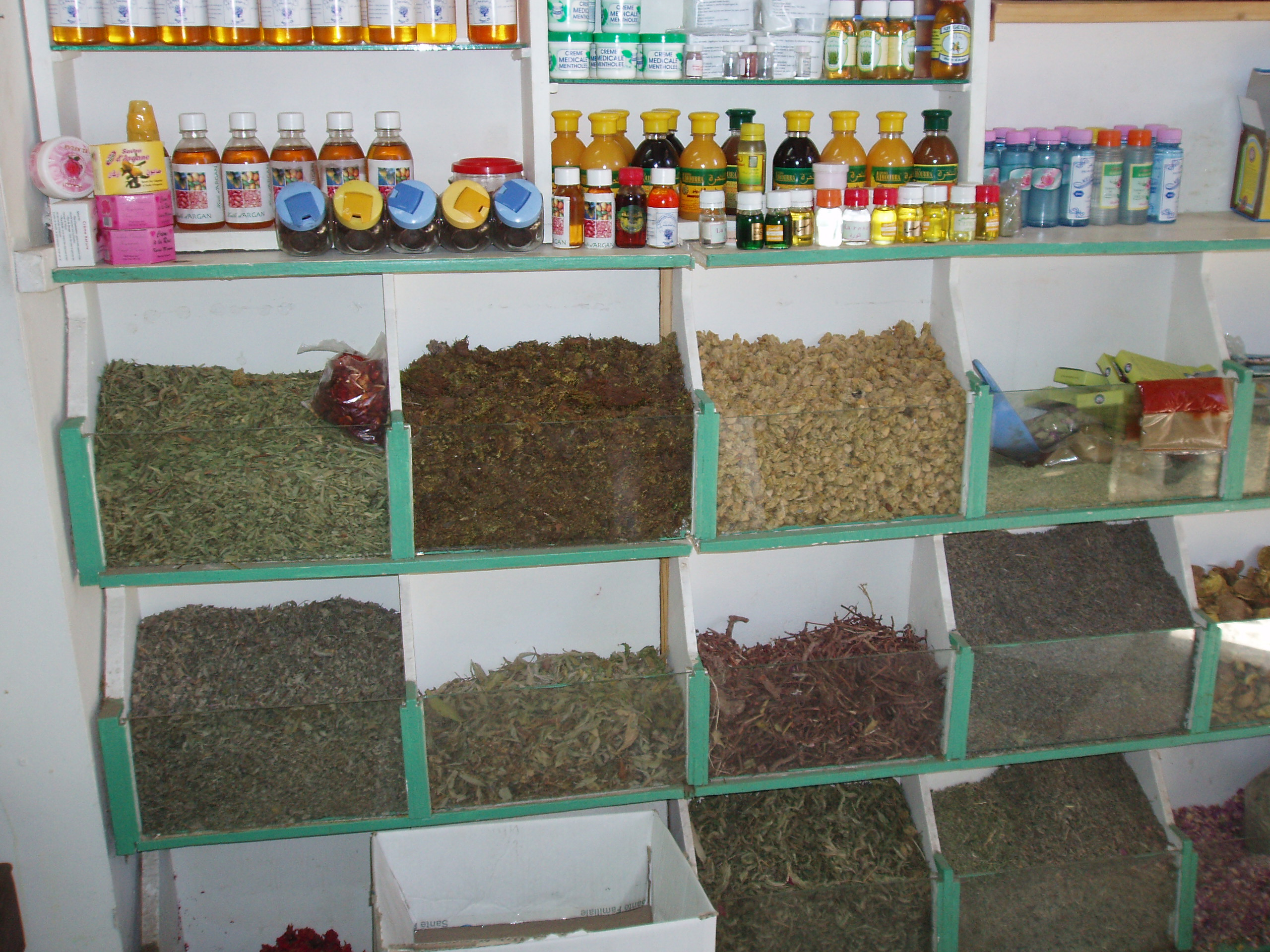 An arabic herbarge shop in the souk of Marrakech, Marocco.